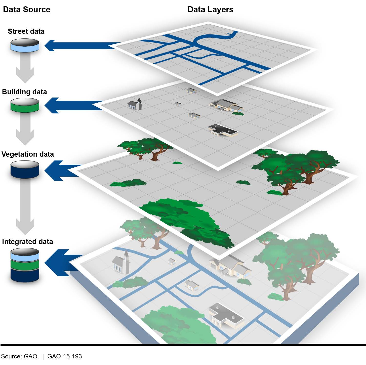 This image is excerpted from a U.S. GAO report: GEOSPATIAL DATA: Progress Needed on Identifying Expenditures, Building and Utilizing a Data Infrastructure, and Reducing Duplicative Efforts